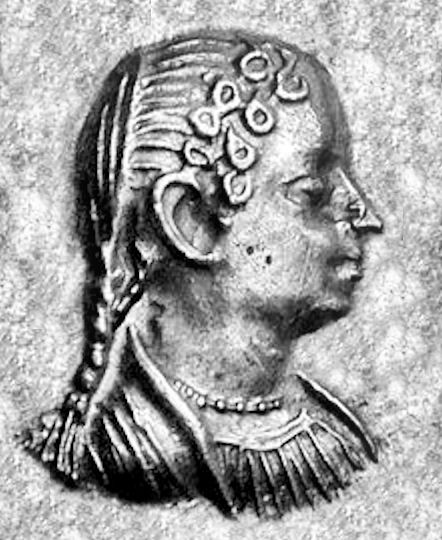 Agathokleia portrait